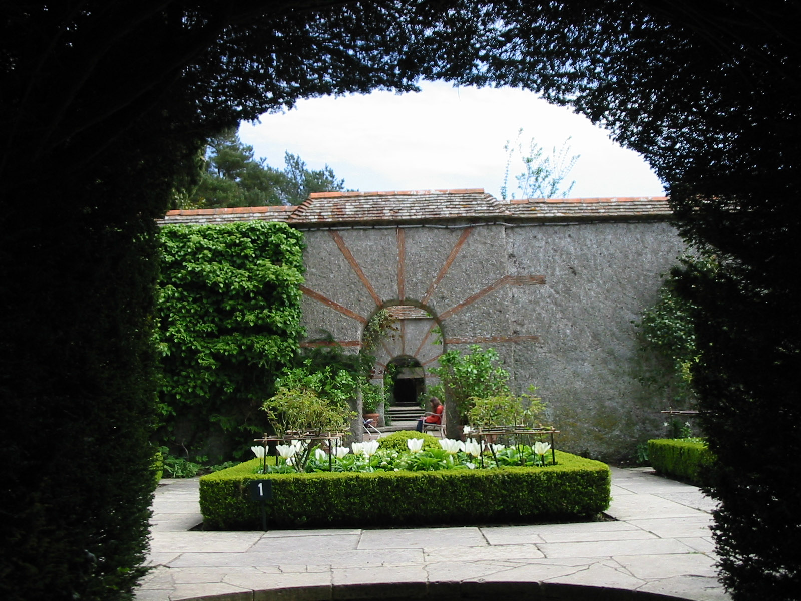 Garden in Bois des Moutiers in Normandy (France)